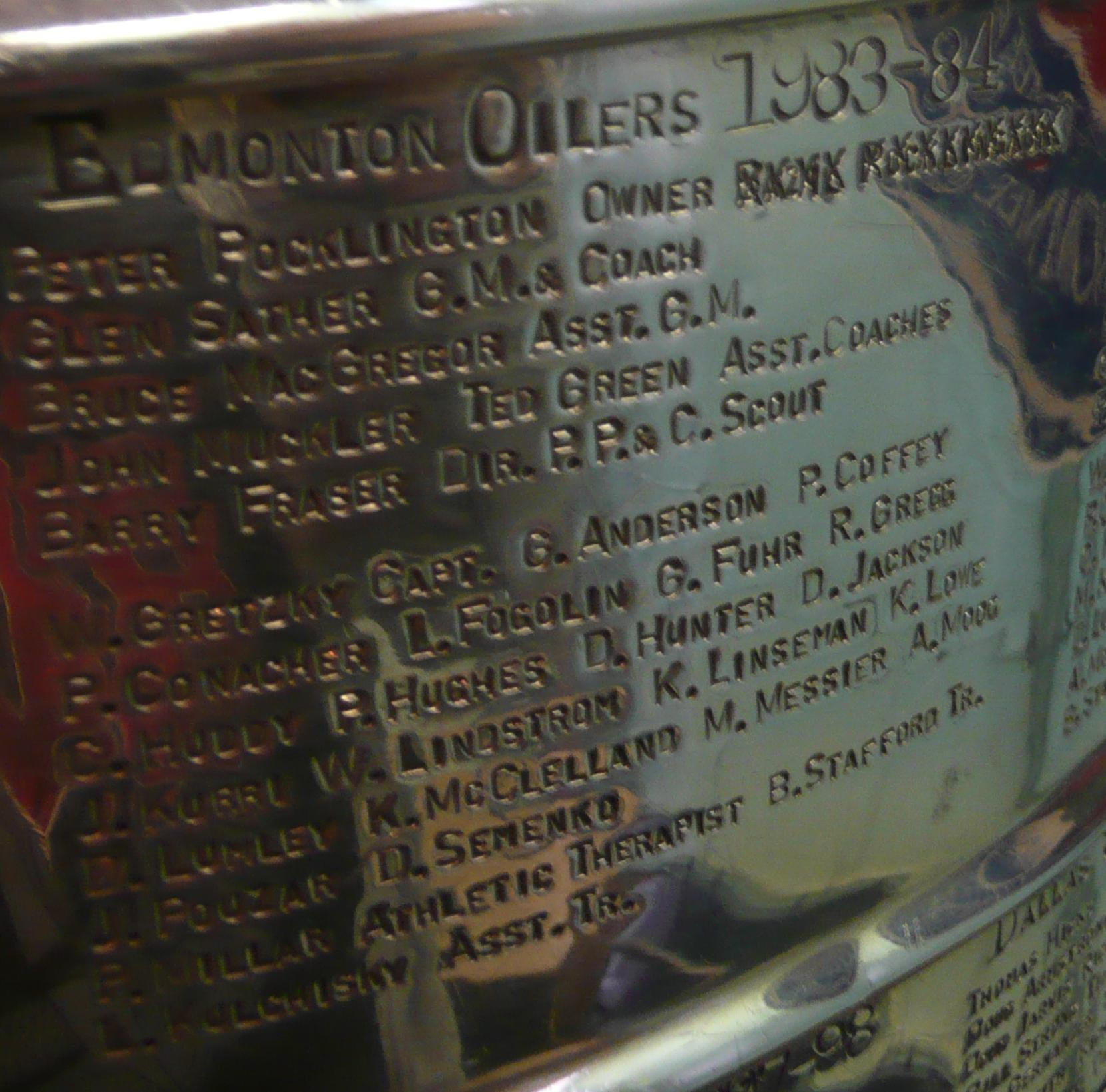 Close-up of Basil Pocklington's crossed off name on the Stanley Cup at the Hockey Hall of Fame